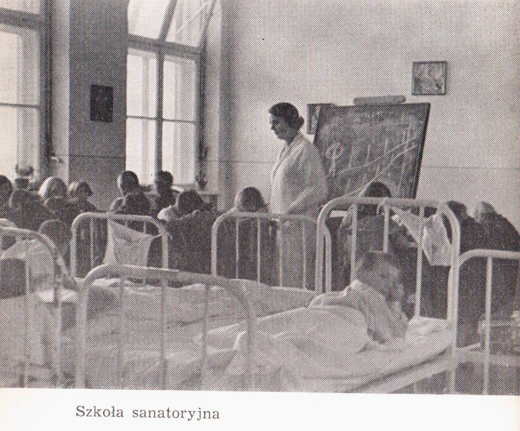 Child's Sanatorium in Busko-Zdrój "Górka", ca1936